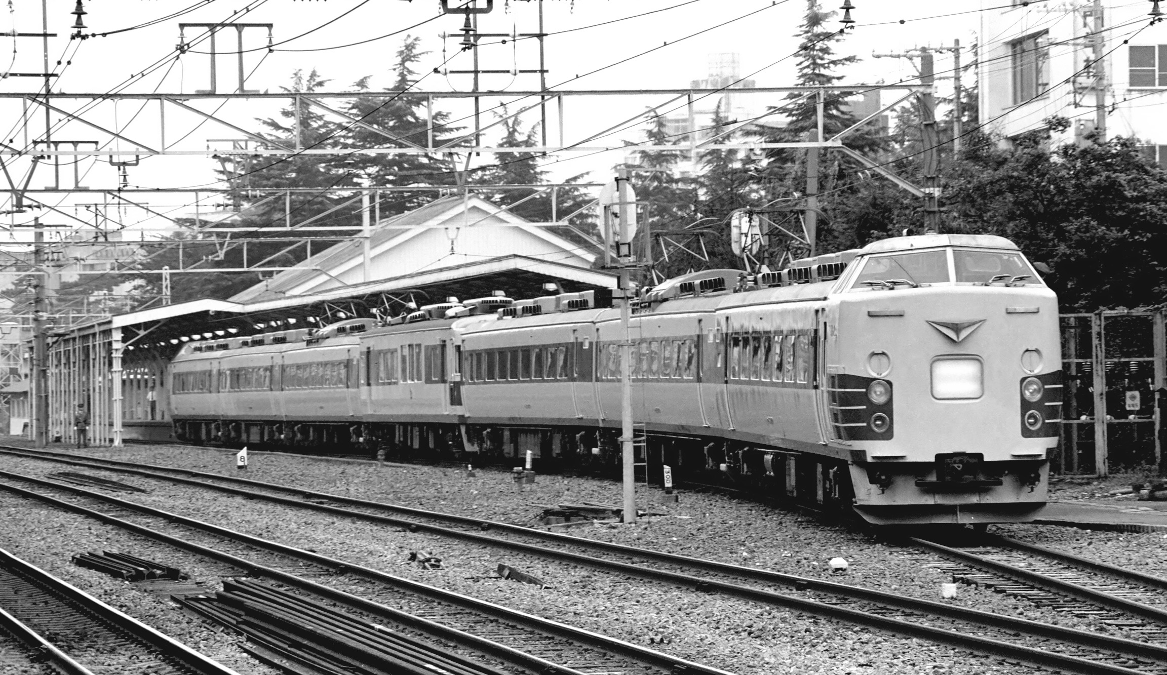 A Japanese National Railways 183 series EMU with imperial coach KuRo 157-1 on an empty stock working at the imperial train platform near Harajuku Station in Tokyo